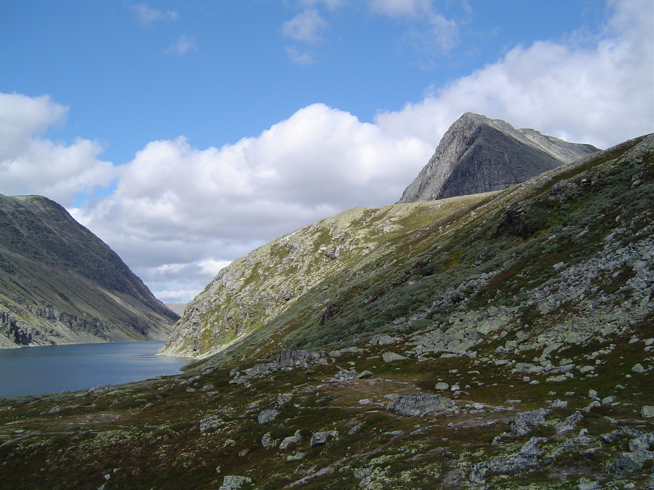 Rondane national park, Norway - Rondvatnet Lake